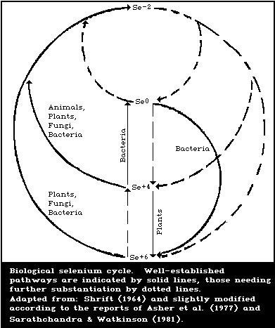 Proposal of the Selenium Cycle. Adapted from Dr. A Shrift